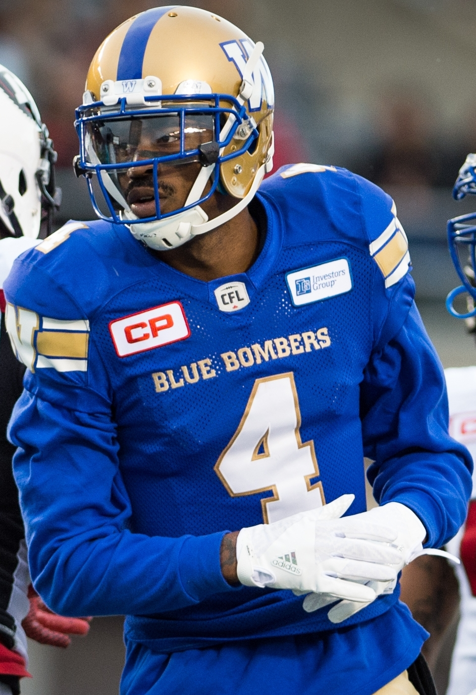 Darvin Adams (4) of the Winnipeg Blue Bombers during the pre-season game at TD Place in Ottawa, ON on Monday June 13, 2016. (Photo: Johany Jutras)